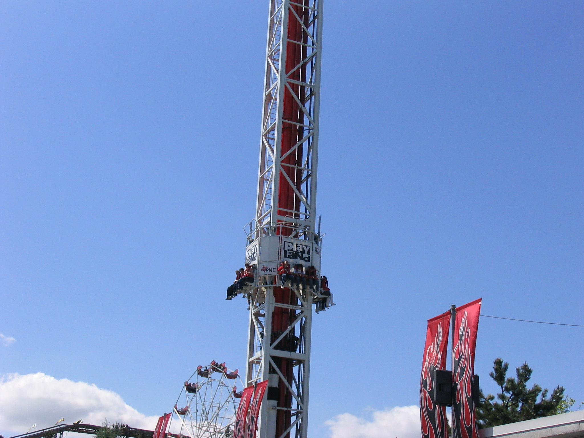 Picture of the Hellevator at Playland